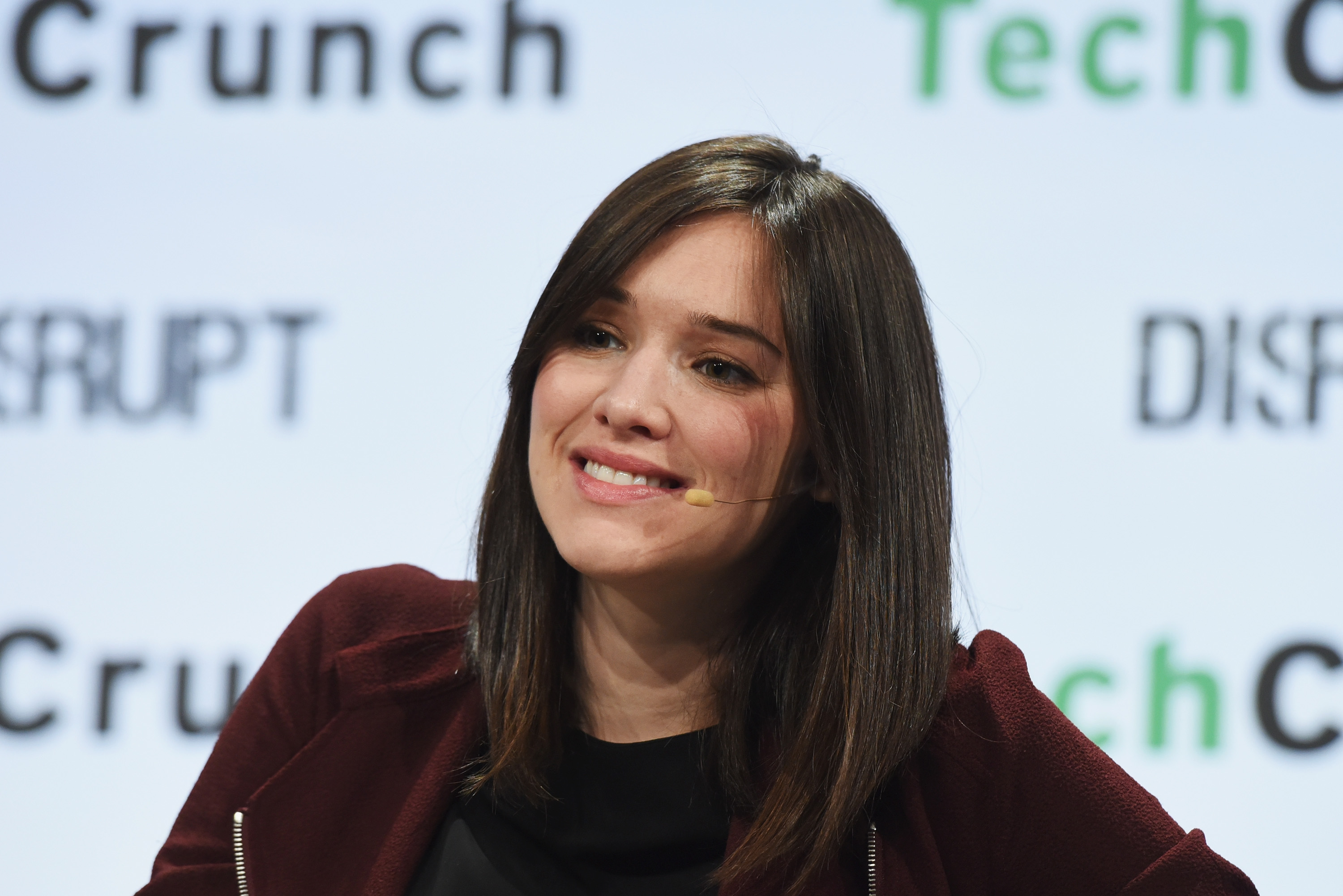 NEW YORK, NY - MAY 10: Managing Director at 1776 Ventures Rachel Haot speaks onstage during TechCrunch Disrupt NY 2016 at Brooklyn Cruise Terminal on May 10, 2016 in New York City. (Photo by Noam Galai/Getty Images for TechCrunch)